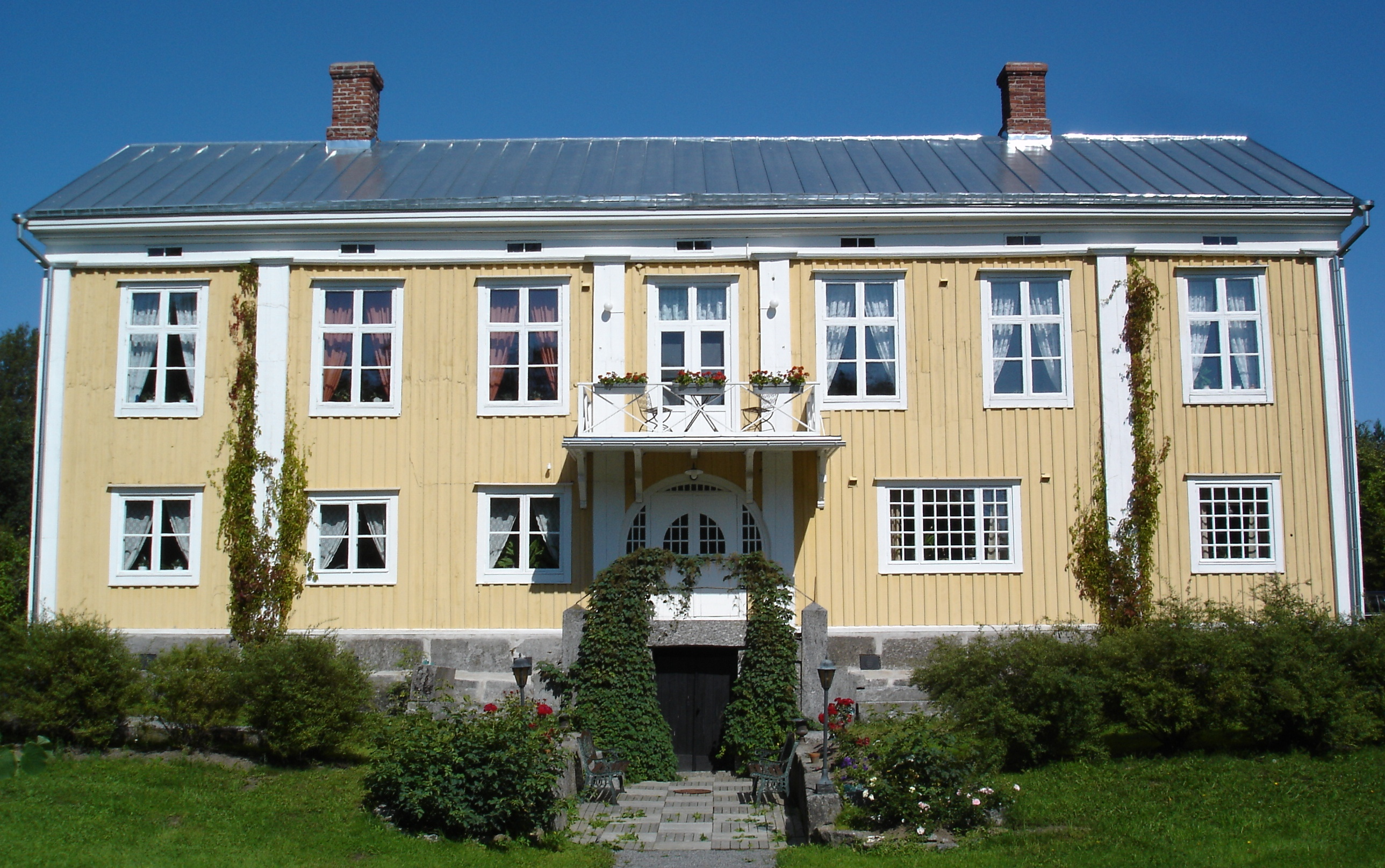 The manor of Grönvik, in Korsholm, Finland